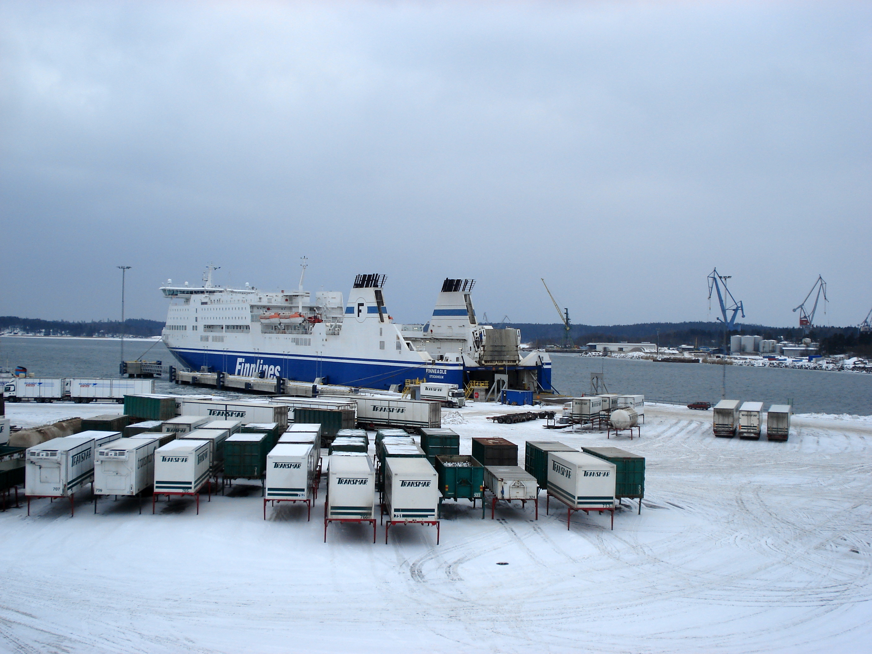 MS Finneagle loading at Port of Naantali. In the background is Turku Repair Yard Ltd. Naantali, Finland.